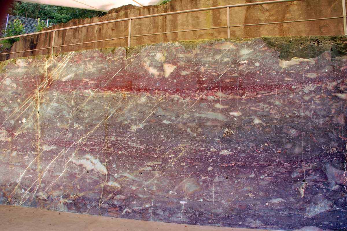 Polished quarry wall in the abandoned Unica limestone quarry in the town of Villmar, Hesse, Germany. The wall consists of Devonian reefal limestone (“Lahnmarmor”, i.e. “River Lahn Marble”) of the eastern Rhenish Massif. The light gray “patches” represent stromatoporoids which are fossils similar to calcareous sponges. Their layered structure is fairly visible in the image.